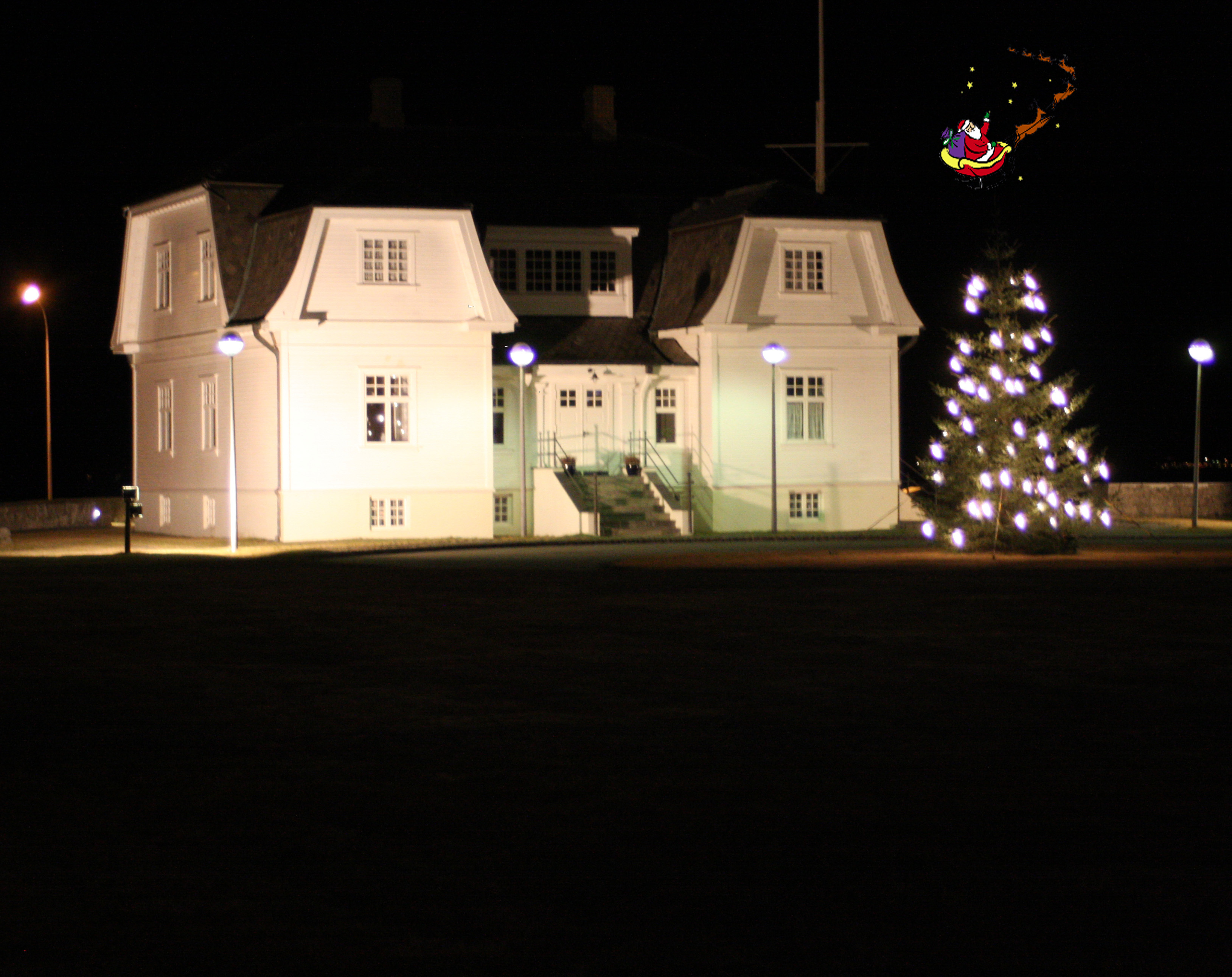 Santa Claus is in town